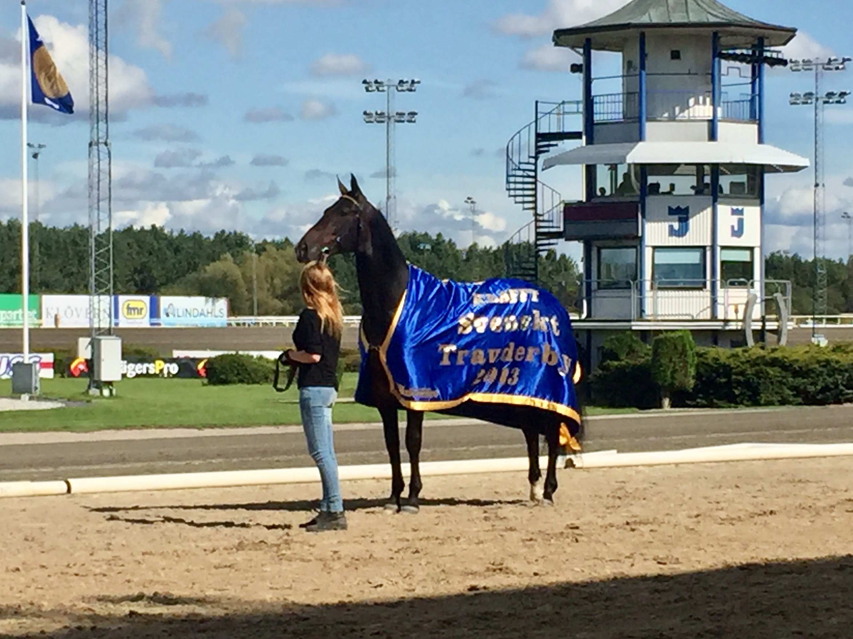 Mosaique Face at Jägersro 2017-09-03.